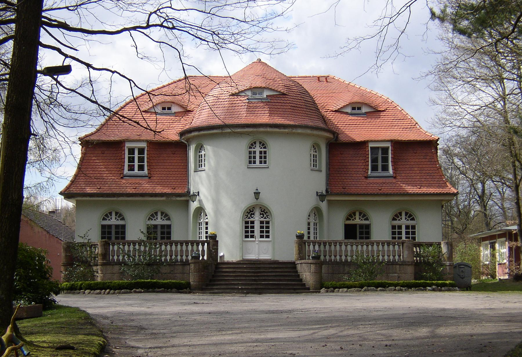 Hunting lodge in Wiesenburg-Medewitzerhütten in Brandenburg, Germany